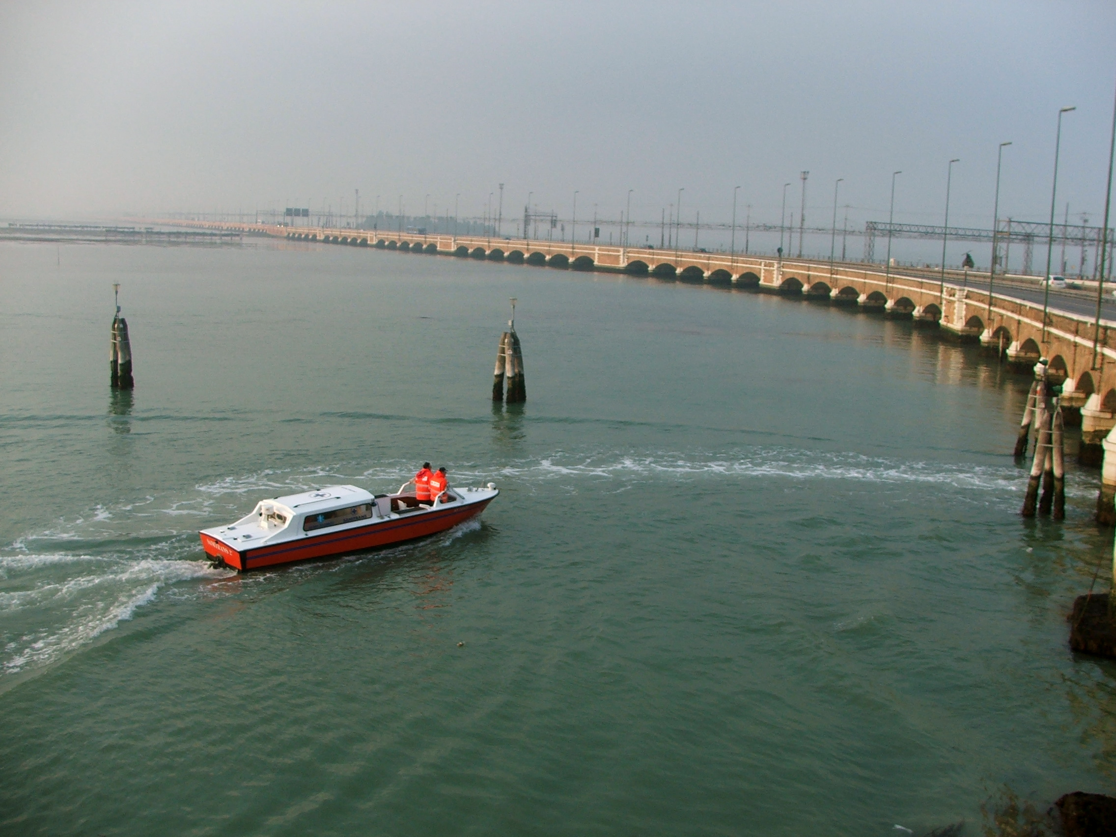 Ponte della Libertà, Venezia